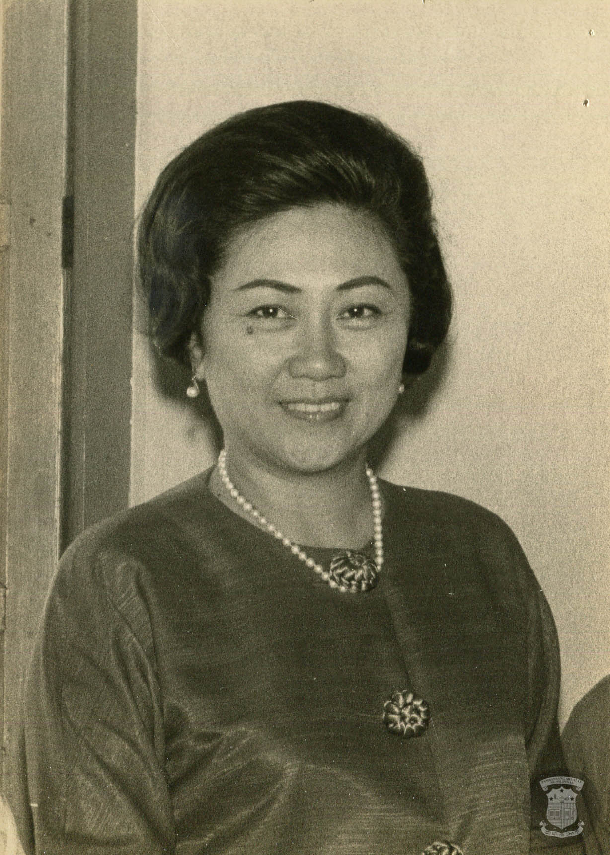 Photo of former Philippine Senator Eva Estrada-Kalaw